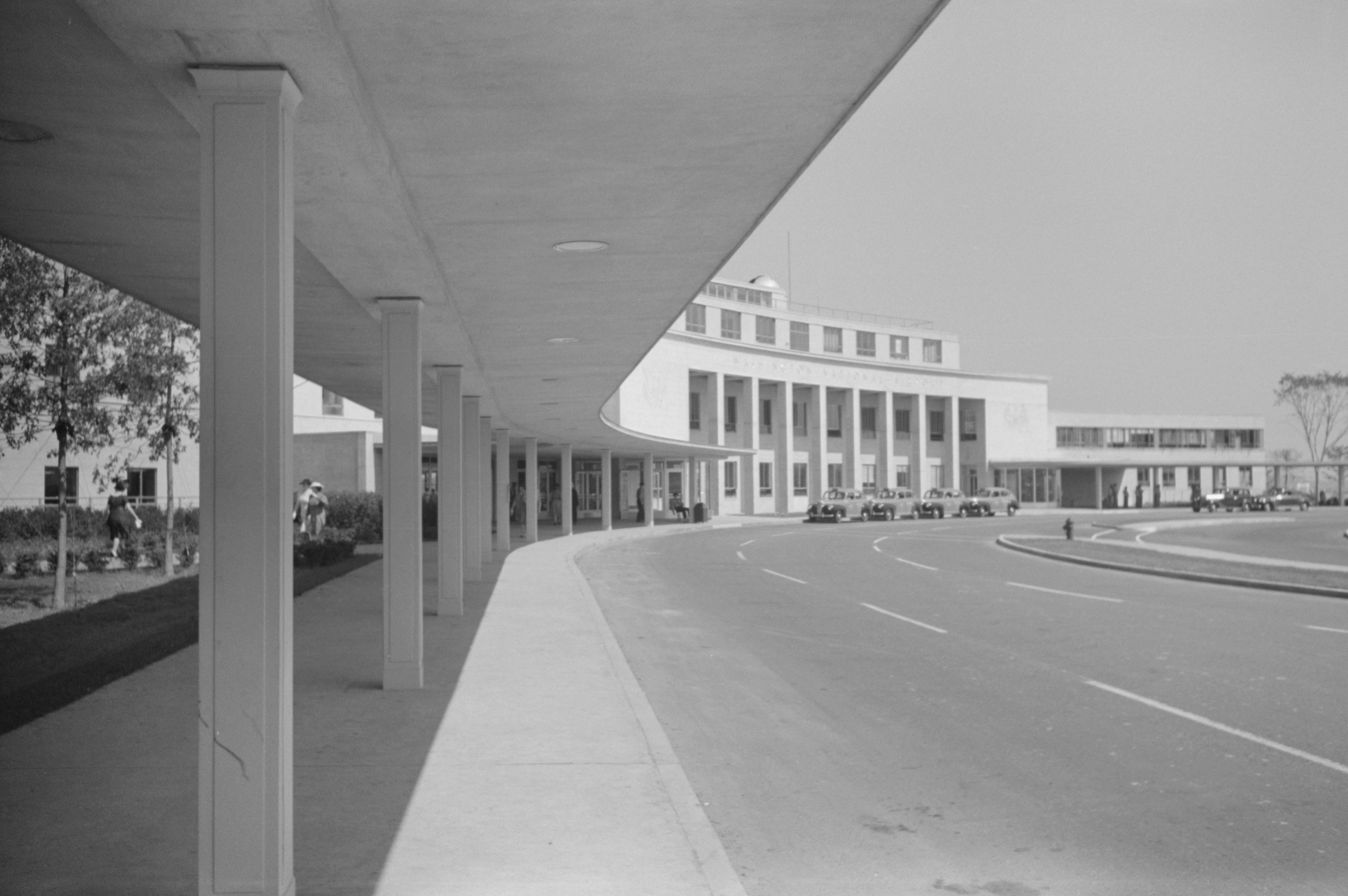 Washington National Airport. Original title:At the entrance to the municipal airport in Washington, D.C.